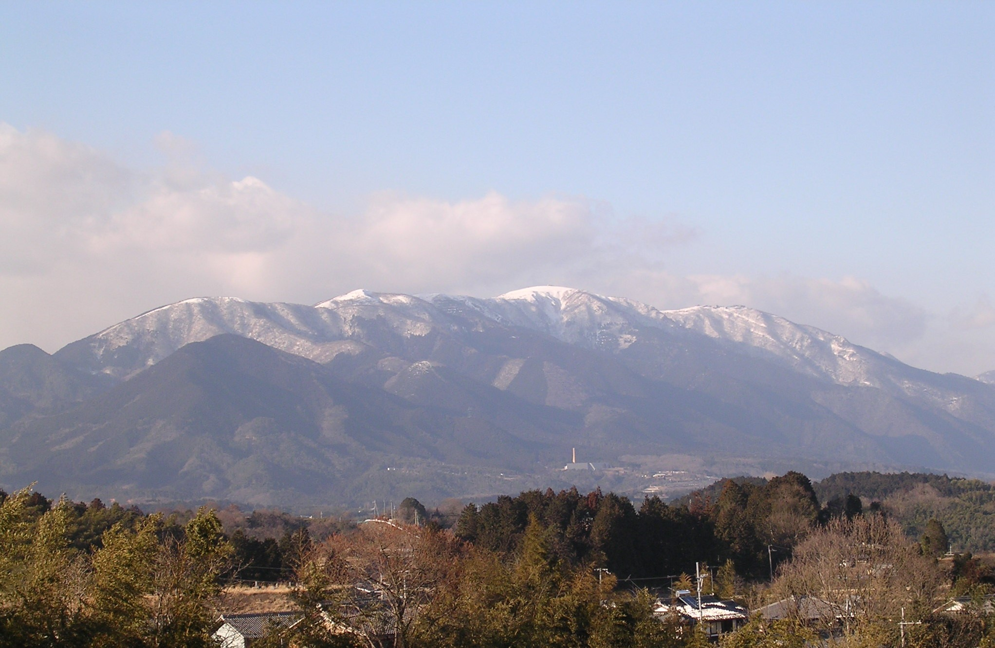 Mt. Hira-san seen from the south in Shiga prefecture, Japan.